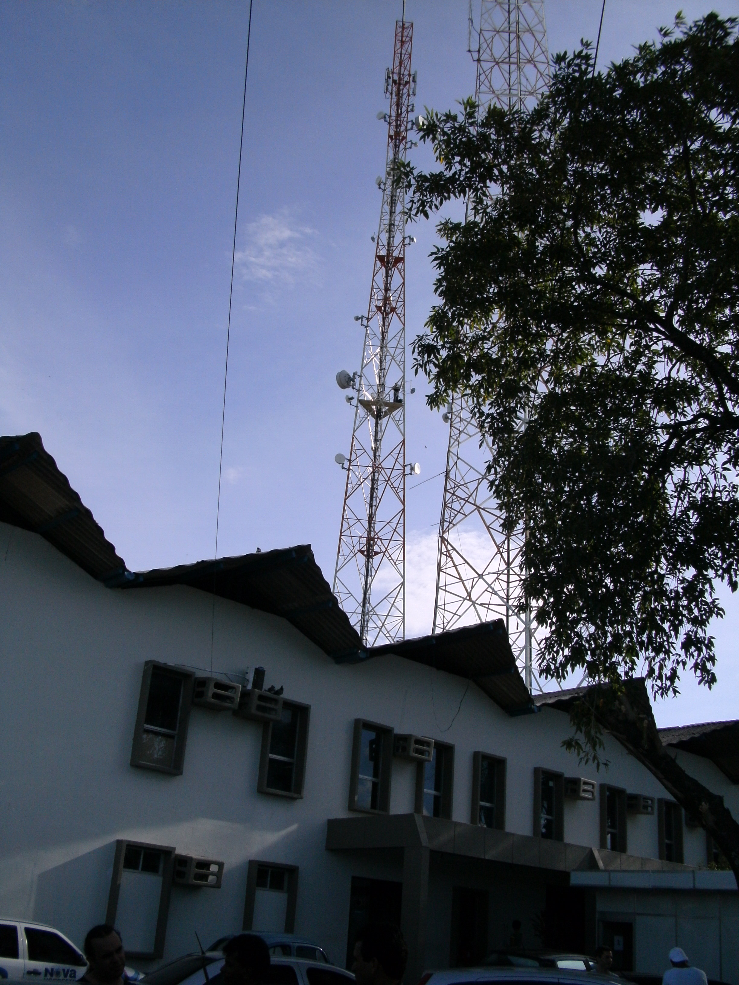 The matrix of TV Nova Nordeste brazilian television channel.